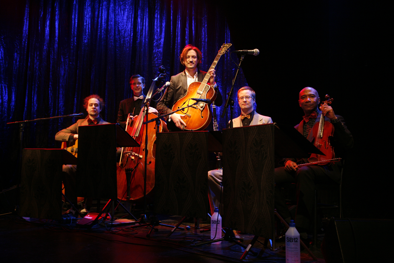 Wille Crafoord's Django and Me